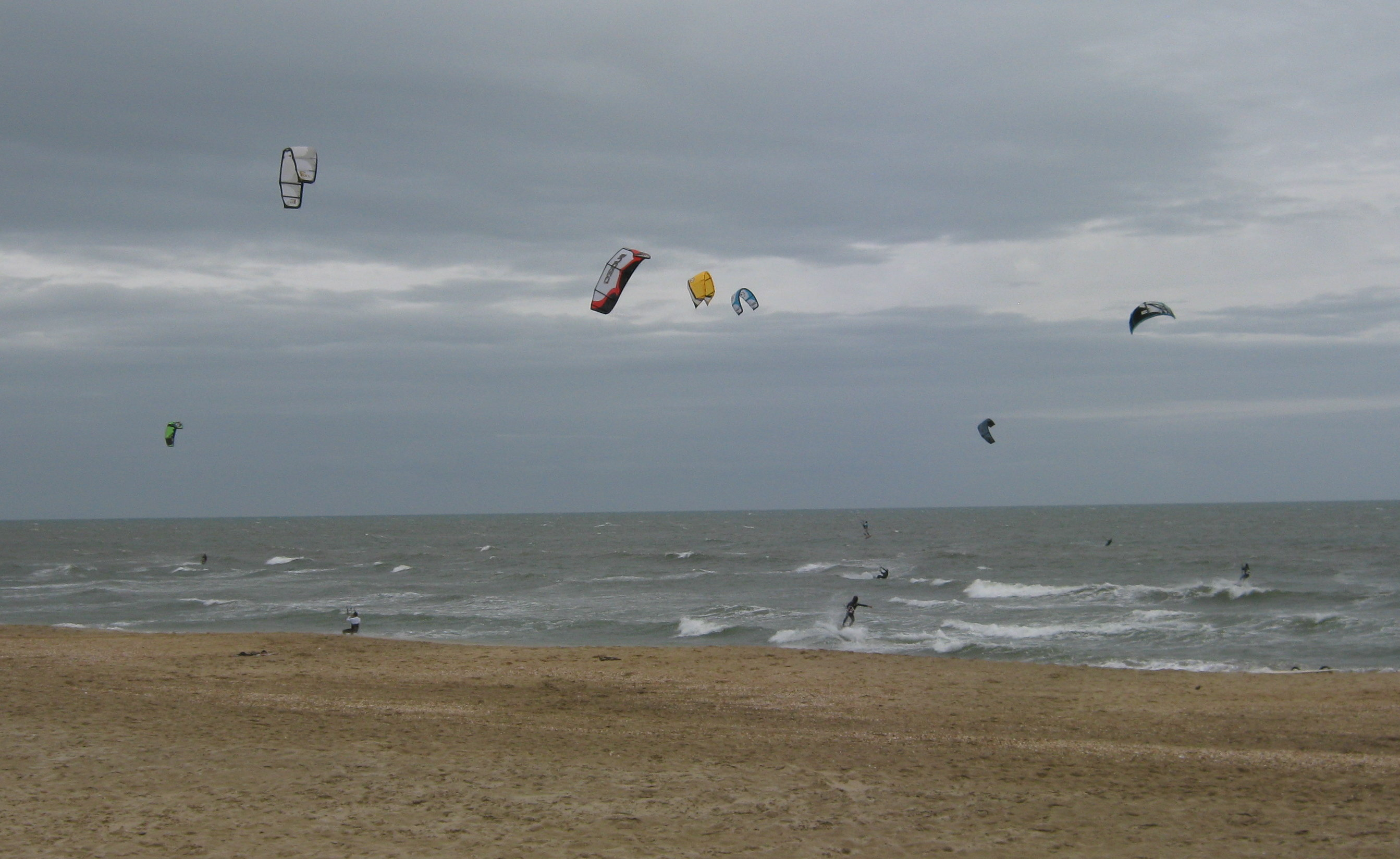 Kitesurfer at Isla Cristina beach.